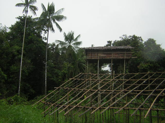 Treehouse of the Korowai tribe in Papua New Guinea.